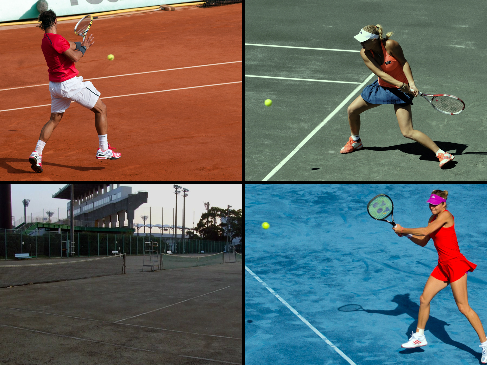 4 types of clay courts : red, green, grey, blue.